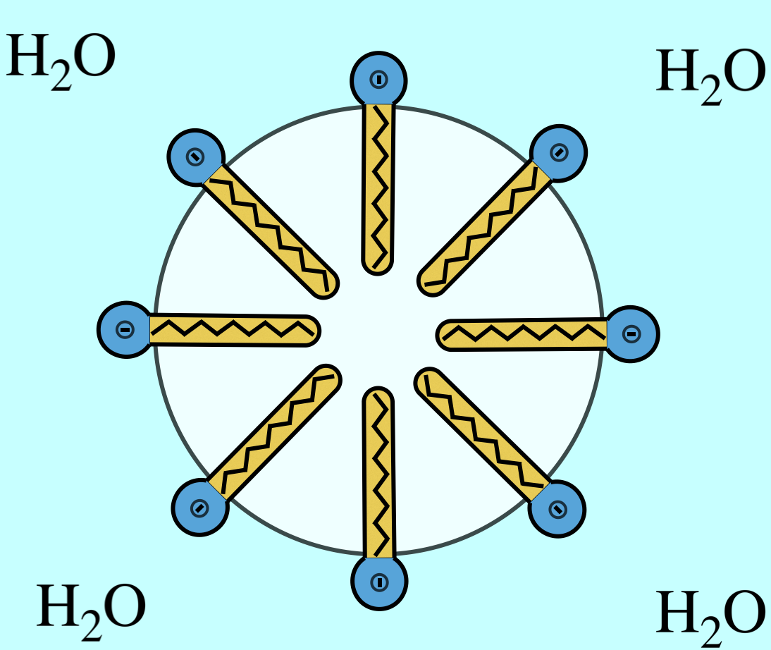 Micelle